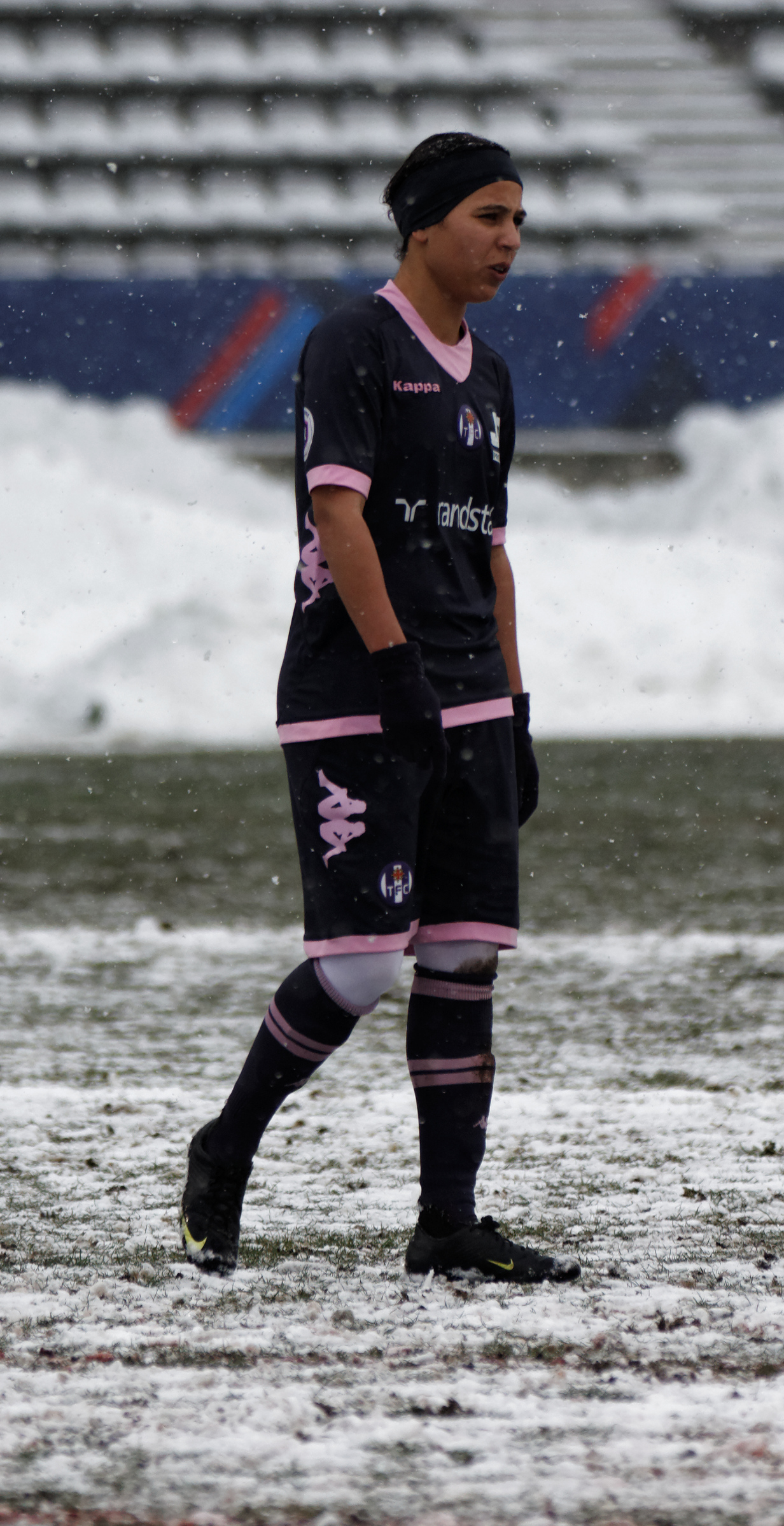 PSG-Toulouse, January 20th, 2013.